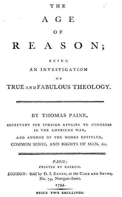 Paine, Thomas. The Age of Reason. Eighteenth Century Collections Online.